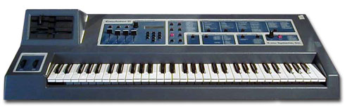 E-mu Emulator II